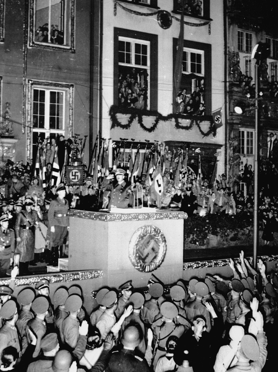 Correct, mirrored version of the USHMM image "Adolf Hitler addresses an audience in Danzig"